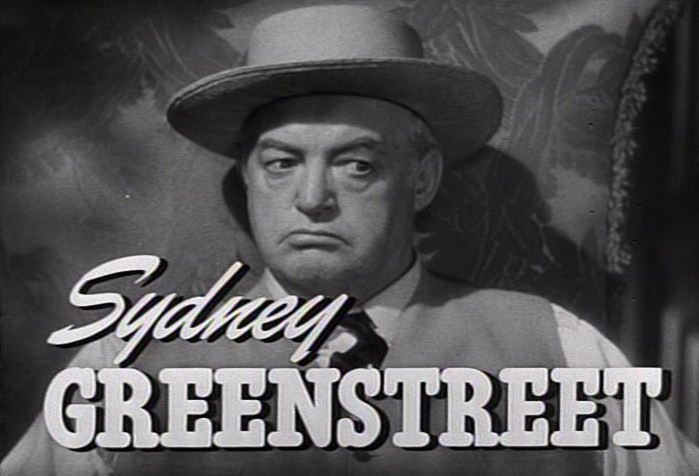 Frame from the trailer for MGM's 1947 film The Hucksters showing Sydney Greenstreet's face and his name superimposed in type